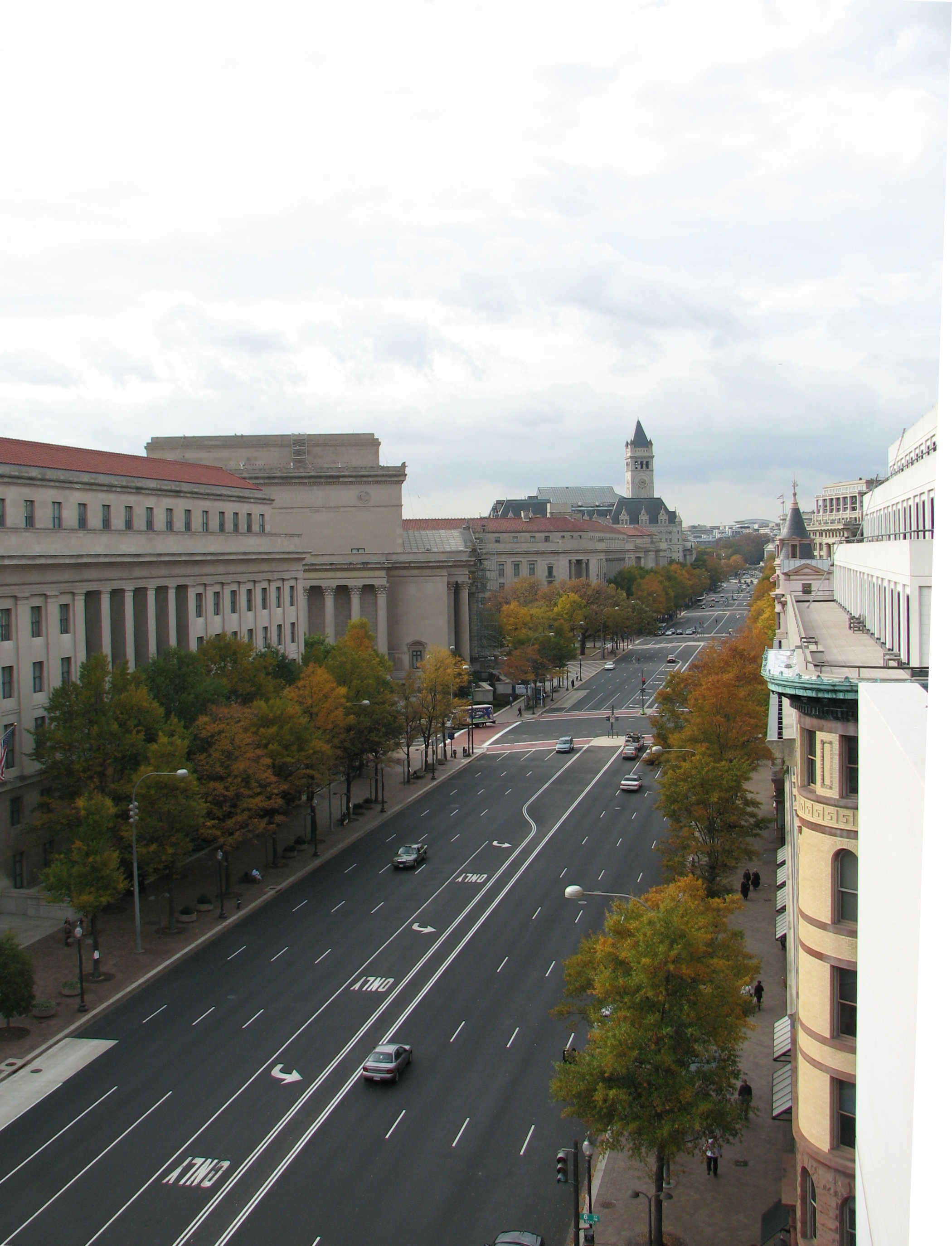 Pennsylvania Avenue seem from the terrace of the Newseum, Washington DC